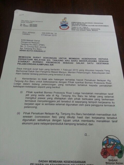 A letter signed by the permanent secretary of the State Tourism, Culture and Environment Ministry said the ministry had no objections to the villagers’ cooperation with the tour company for the use of a jetty in Tanjung Aru.